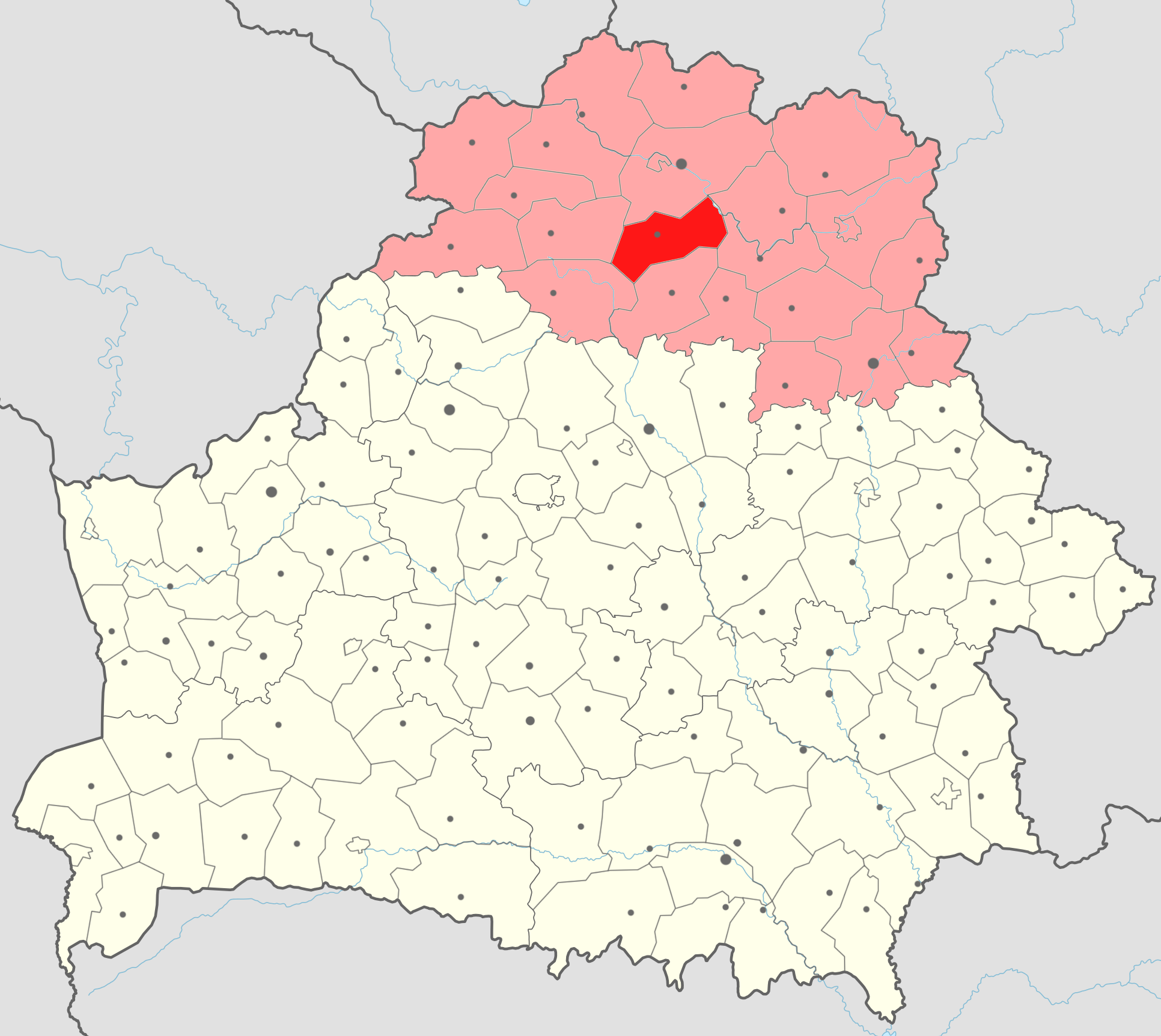 Map of Ušacki raion (in red) with Viciebskaja voblast' (in light red) on the map of Belarus.